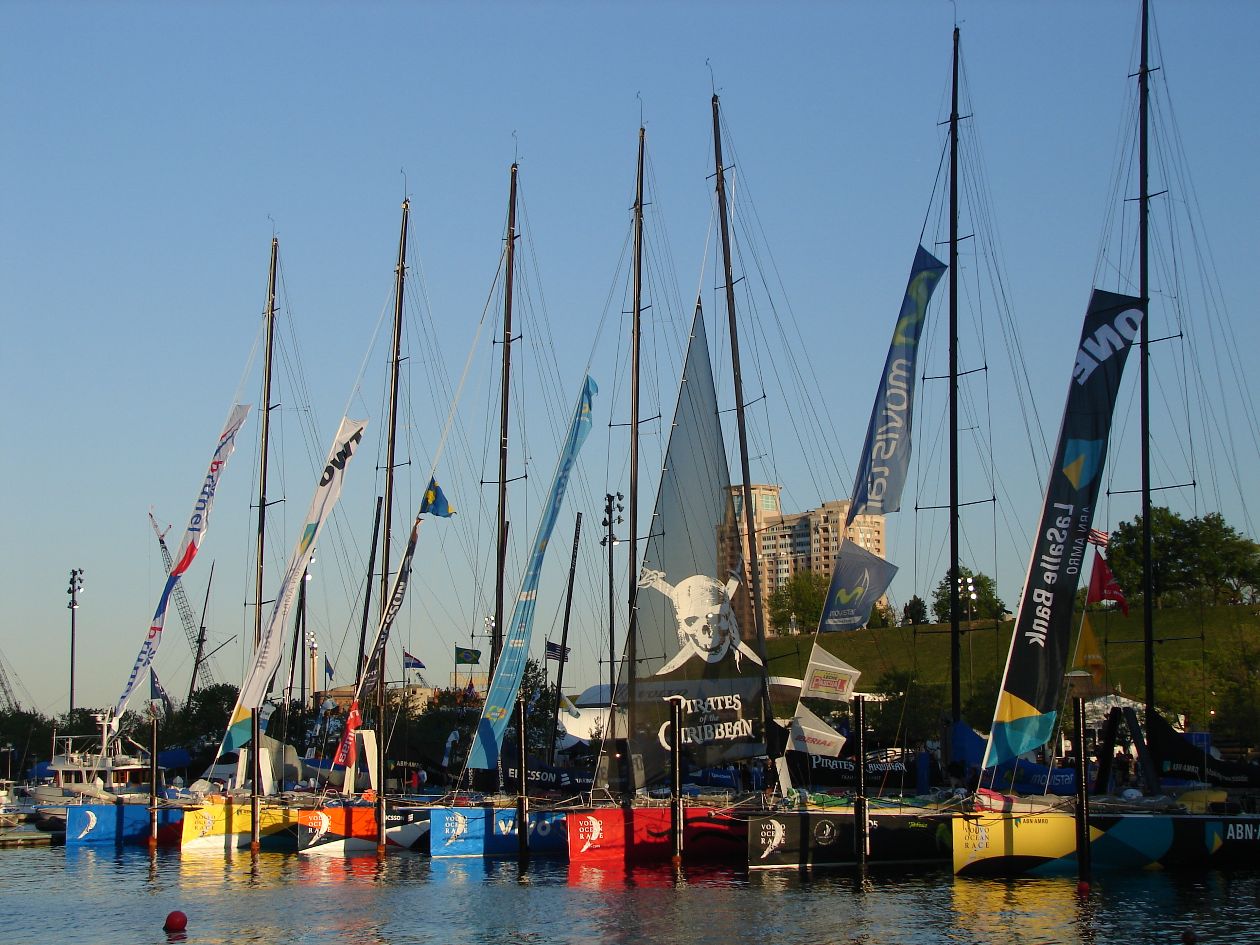 Participating Yacht's of 2006 Volvo ocean race at inner harbor, Baltimore